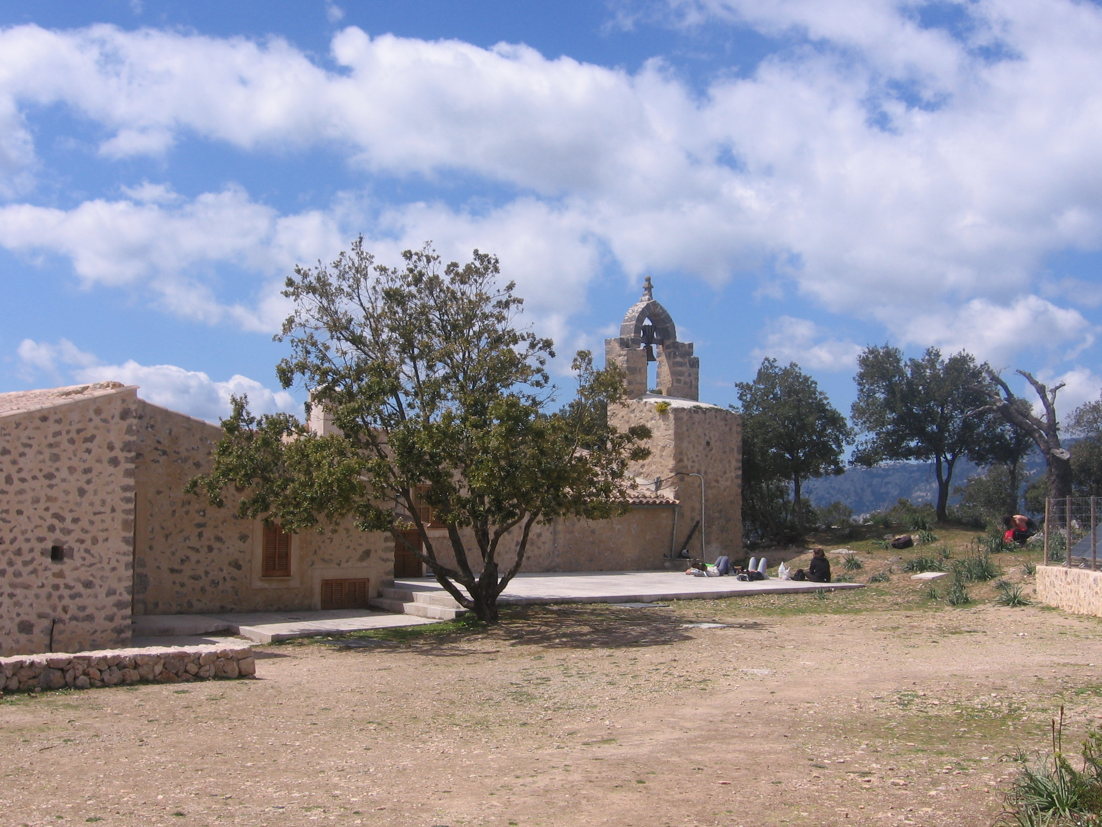 Castell d'Alaró. Mare de Déu del Refugi. Alaró. Mallorca.